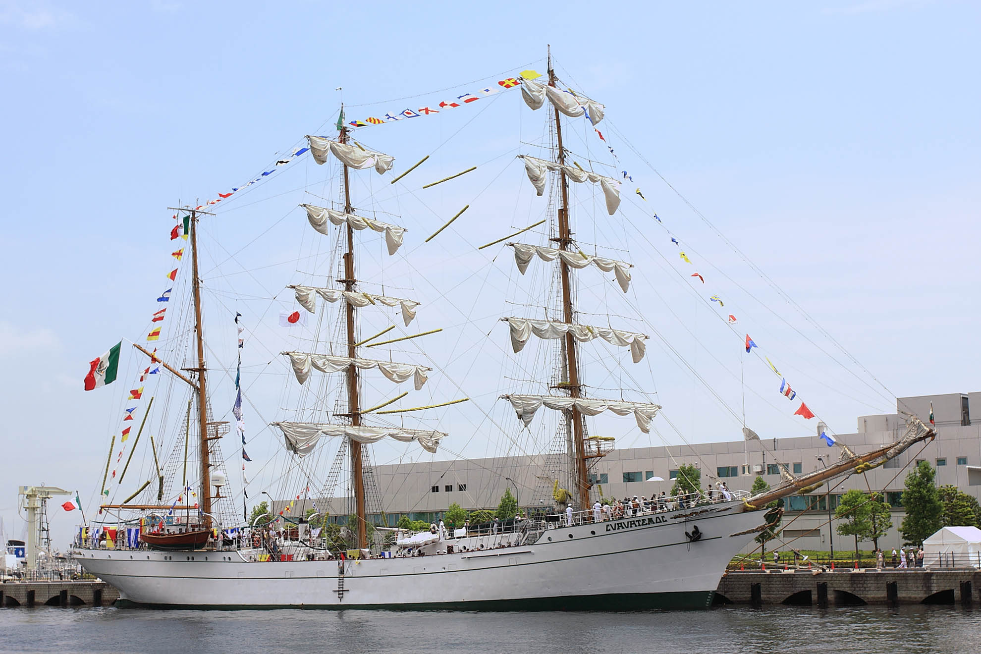 The Mexican Naval Training Ship Cuauhtémoc off the Port of Yokohama.Subjected to Dressing overall.June 2009